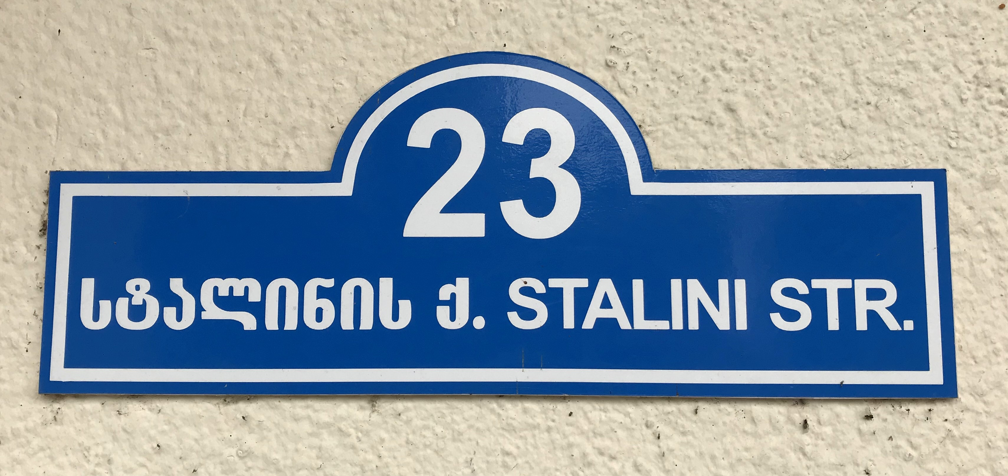 Road sign in Gori, Georgia